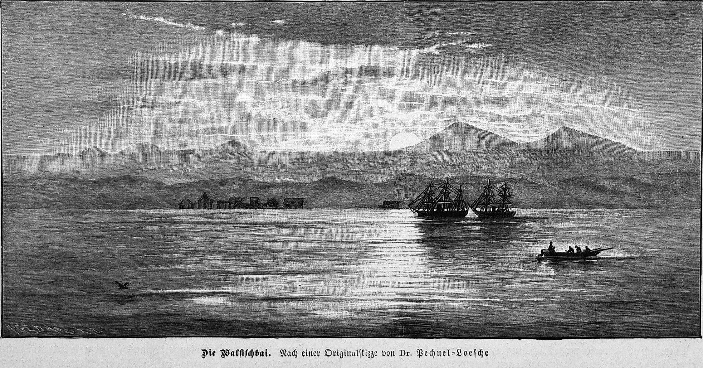 caption: "Die Walfischbai. Nach einer Originalskizze von Dr. Pechuel-Loesche."